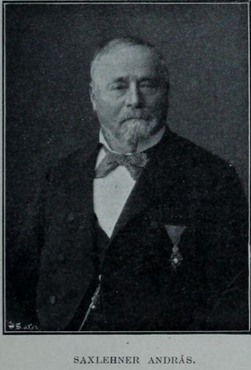 Portrait of Saxlehner András